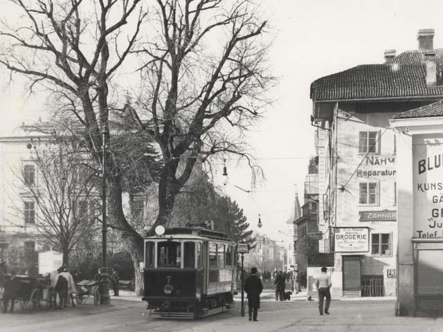 Tramway of Meran in southern Tyrol.